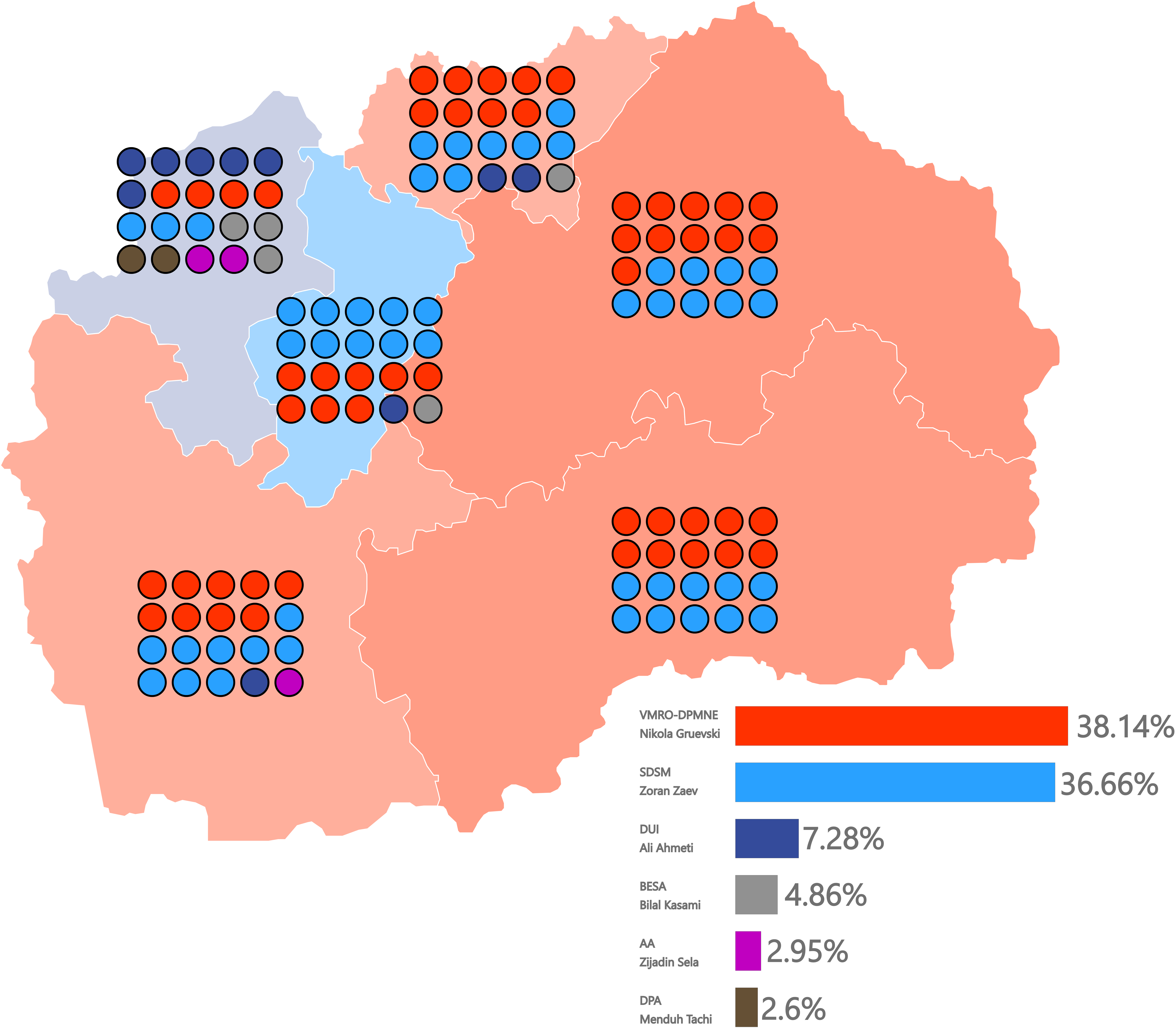 Results of the 2016 Macedonian parliamentary elections by the constituencies